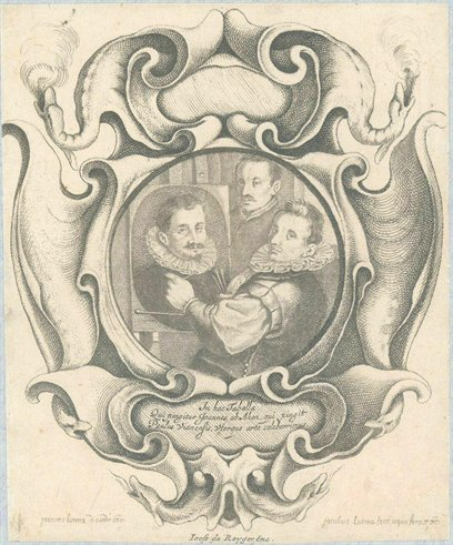 Engraving of Hans von Aachen painting Paulus van Vianen with Adriaen de Vries in the background